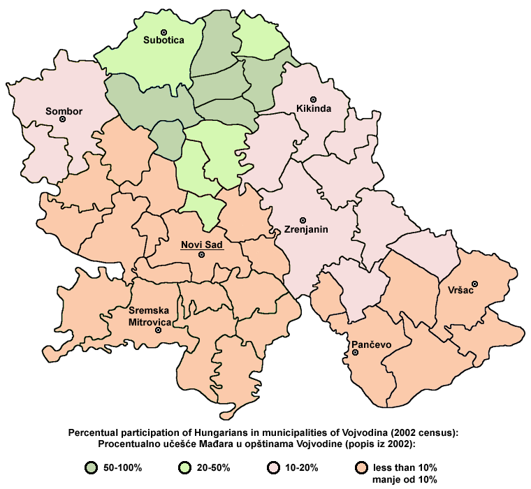 percentual participation of Hungarians in municipalities of Vojvodina (2002 census)